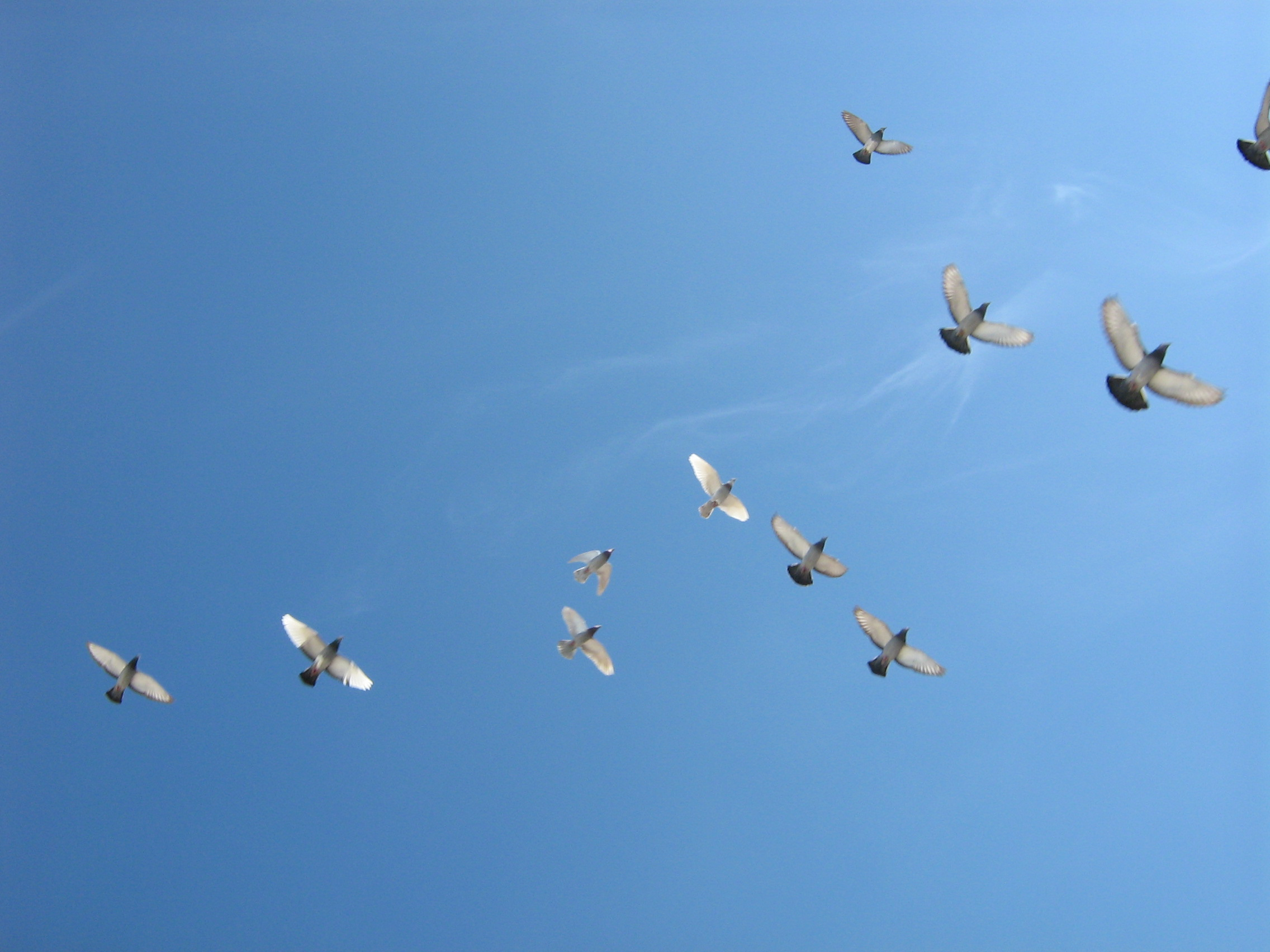 Birds flying, Casablanca, Morocco